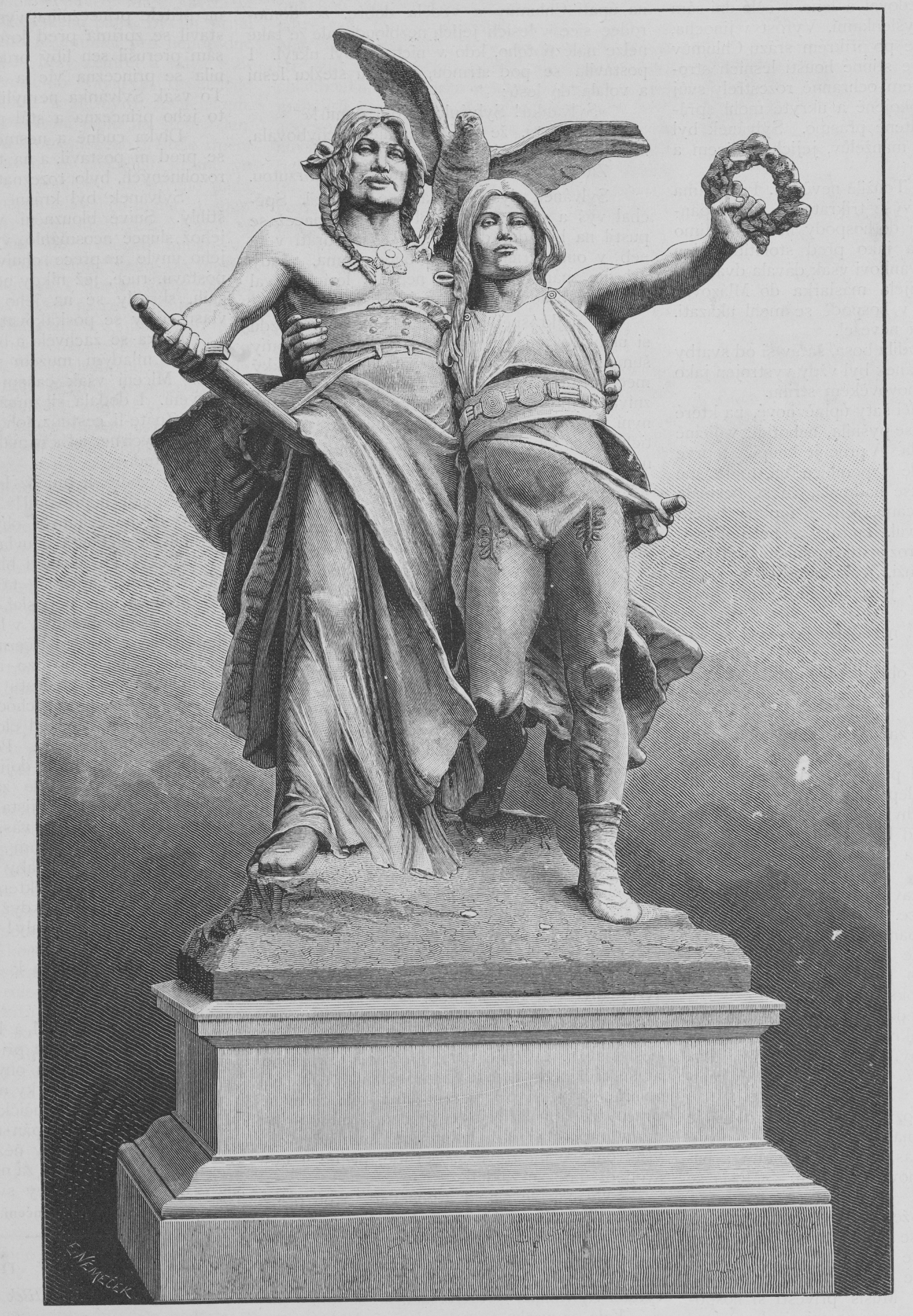 Draft for statues of Slavoj and Záboj, legendary pagan Czech heroes. They appeared in poem Záboj, Slavoj i Luděk from a falsified Rukopis královédvorský (Koniginshofer Manuscript). The statues originally stood on Palackého most (Palacký Bridge) in Prague, later they were moved to Vyšehrad.